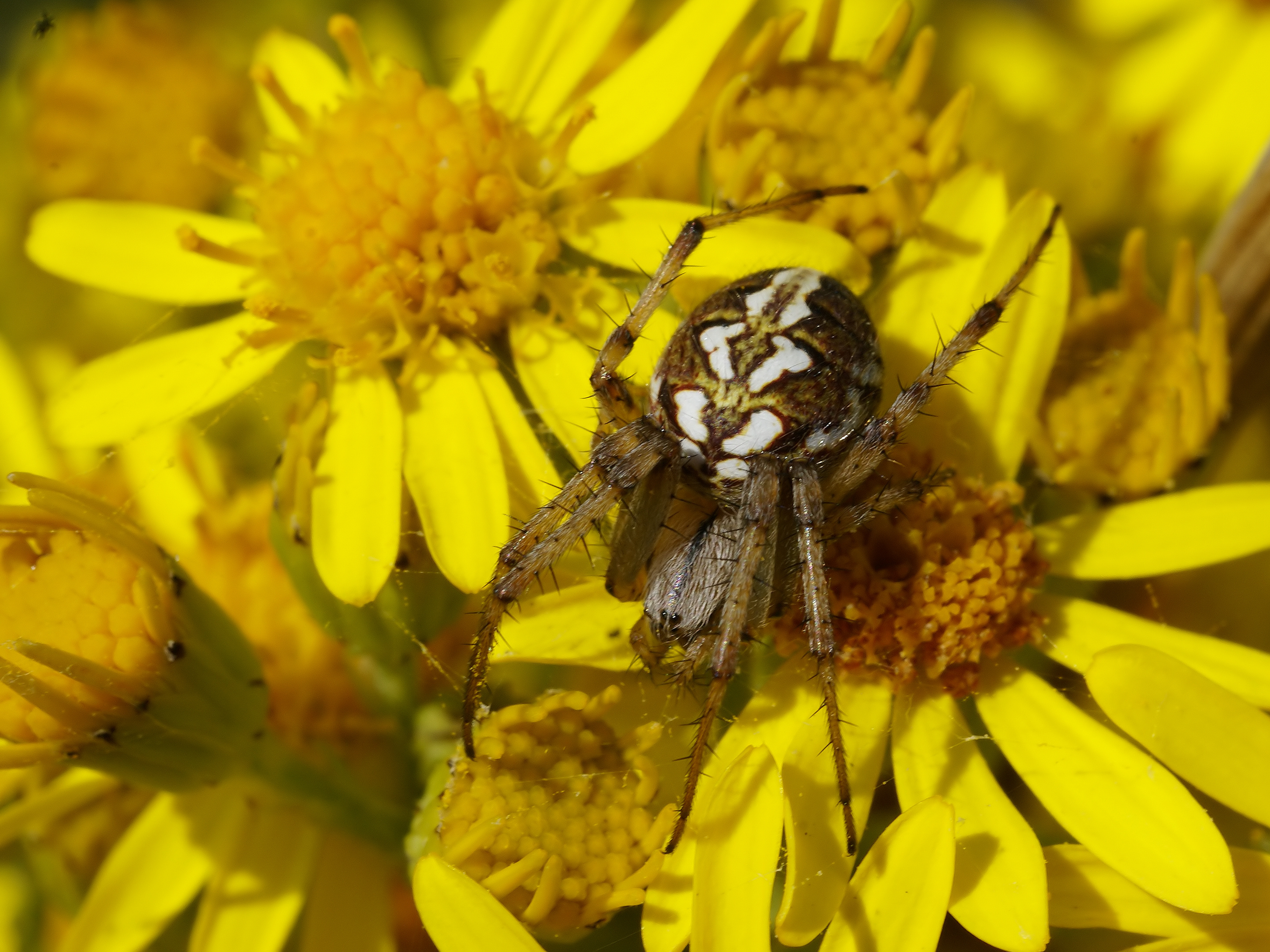 Orb web spider on Ragwort in De Haan, Belgium